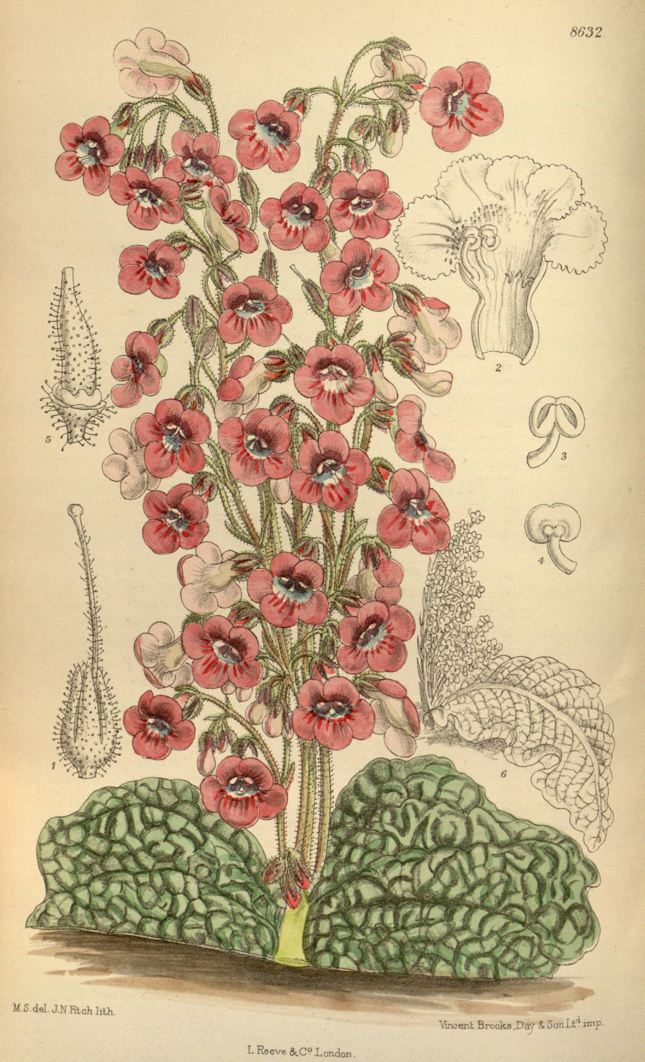 Streptocarpus denticulatus Turrill -- Bot. Mag. 141: t. 8632. 1915.